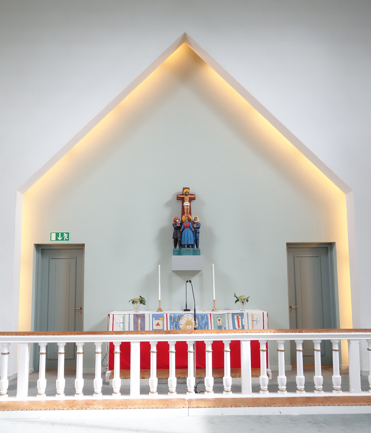 The altar of Karesuando church in northern Sweden. Lars Levi Læstadius, his inspirer Maria and his successor Johan Raattamaa are standing at the foot of Jesus' cross. The sculpture was created by Bror Hjorth.